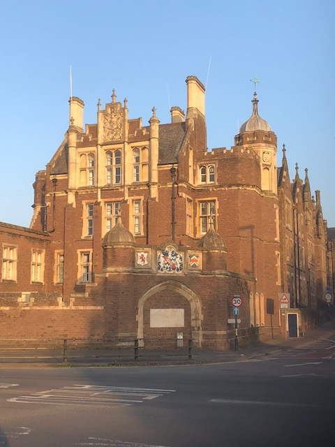 Monmouth School, Monmouth, Wales. Henry Stock's School House.